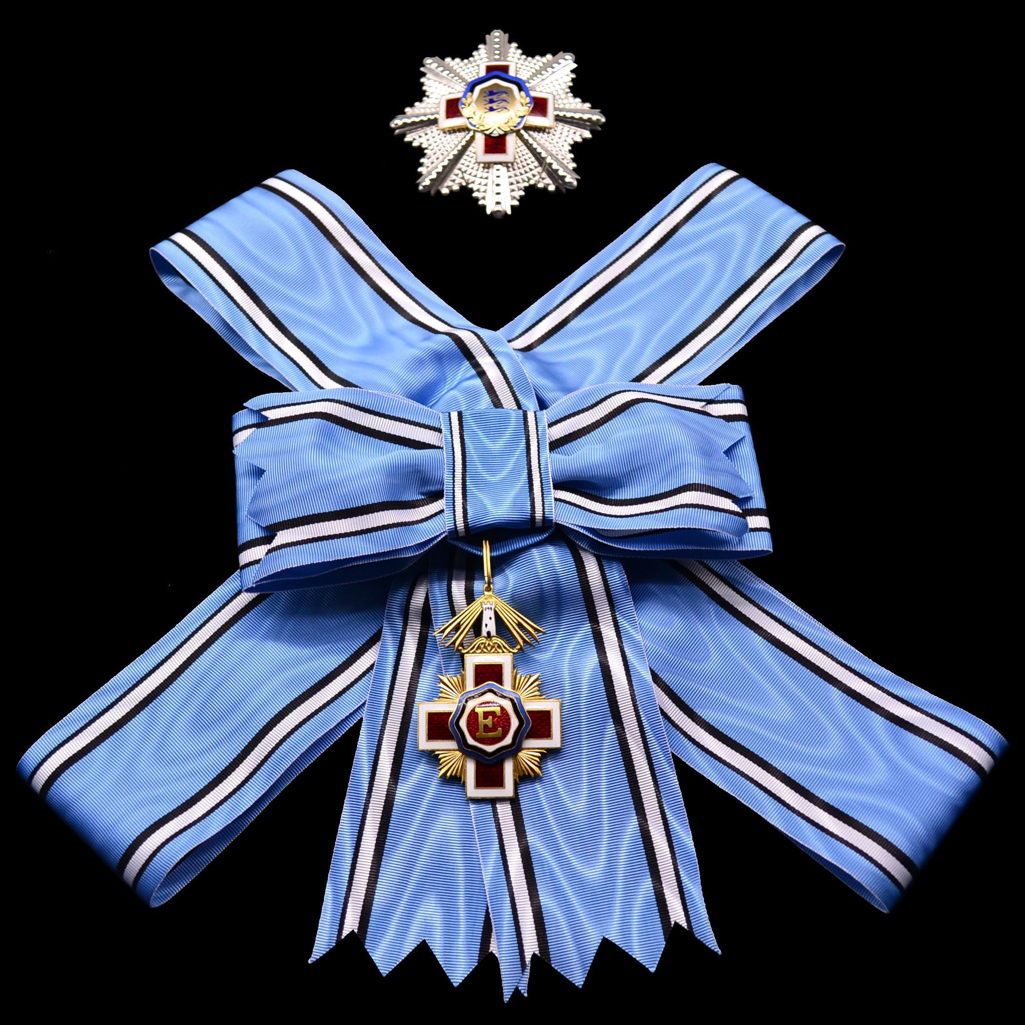 Estonia. Insignias of the Order of the Estonian Red Cross 1st class for Dames. The exhibition of the Estonian State Decorations at the National Library of Estonia in Tallinn.